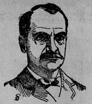 Sketch for Thomas Hodge, former Iowa Congressman, appearing in December 4, 1911 edition of The Daily Gate City (Keokuk, Iowa)